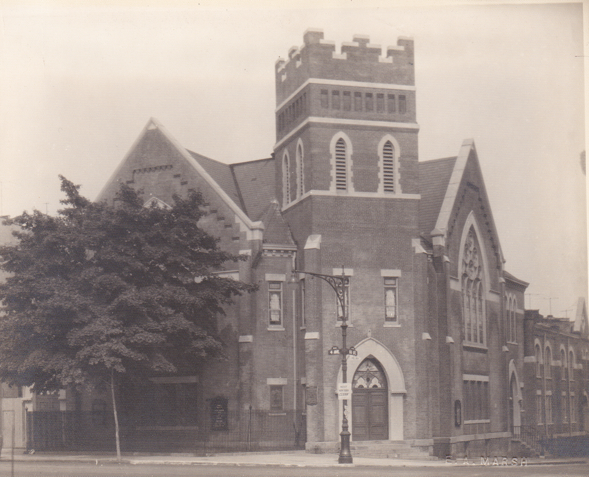 South Reformed Church on 55th Street and 4th Avenue